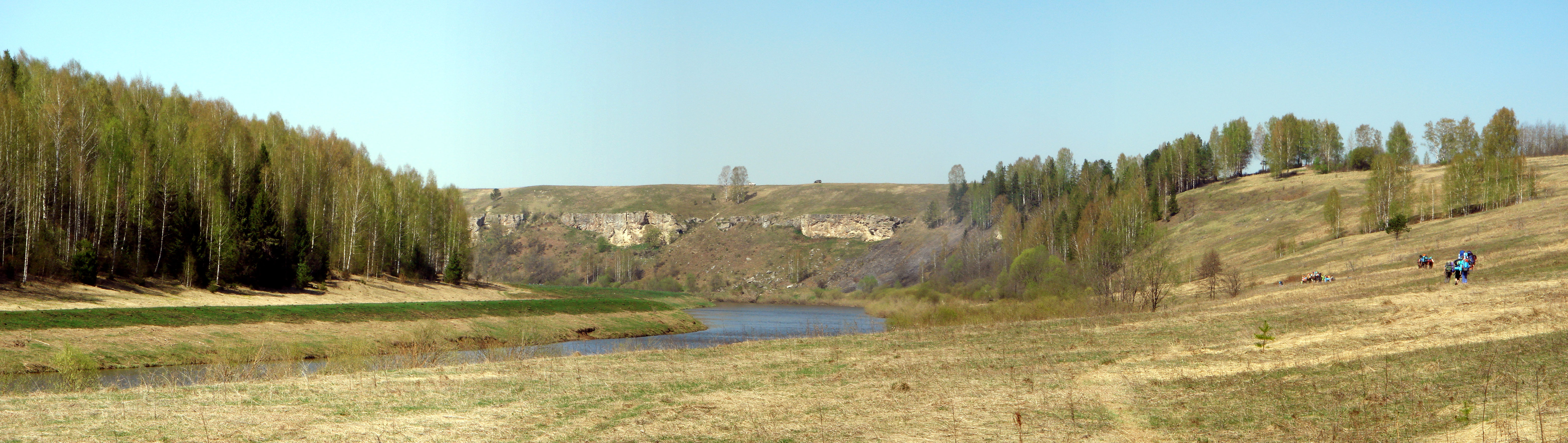 Rocks on river Nemda, Kirovskaya Oblast.